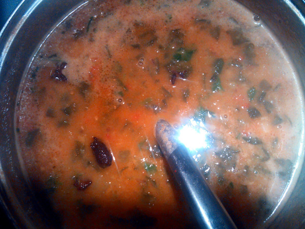 Soup, Red Lentil, Daal